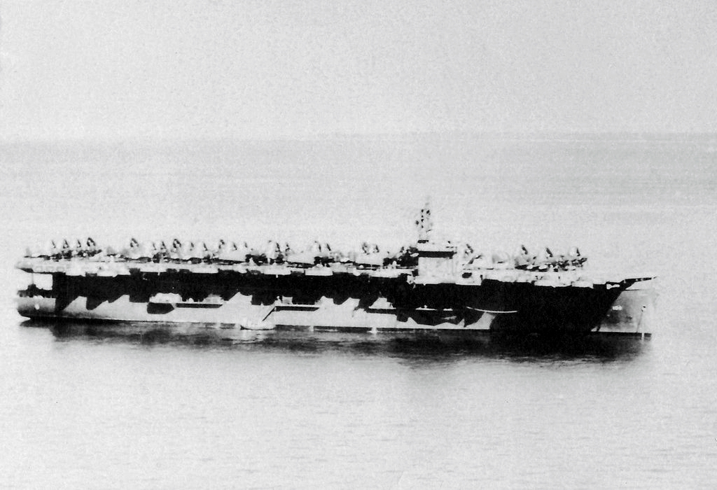 The U.S. Navy escort carrier USS Munda (CVE-104) at anchor, with a deckload of aircraft, mostly Curtiss SB2C Helldiver and Grumman TBM Avenger.